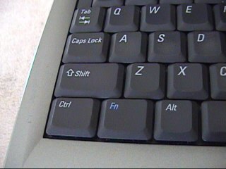 A picture of the 'FN' key on compact keyboards (often on PC laptops). I didn't see on on the article 'Fn_key' so I thought it was needed for clarification. I took this image myself, so and it doesn't show the brand name or anything of my computer so it's safe.